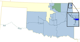 Wyandotte Oklahoma Tribal Statistical Area. I made this image, using fairly slight modifications to an original in the public domain. By all means, let's keep it in the public domain! QuartierLatin1968 03:34, 27 Oct 2004 (UTC) Category:Oklahoma maps